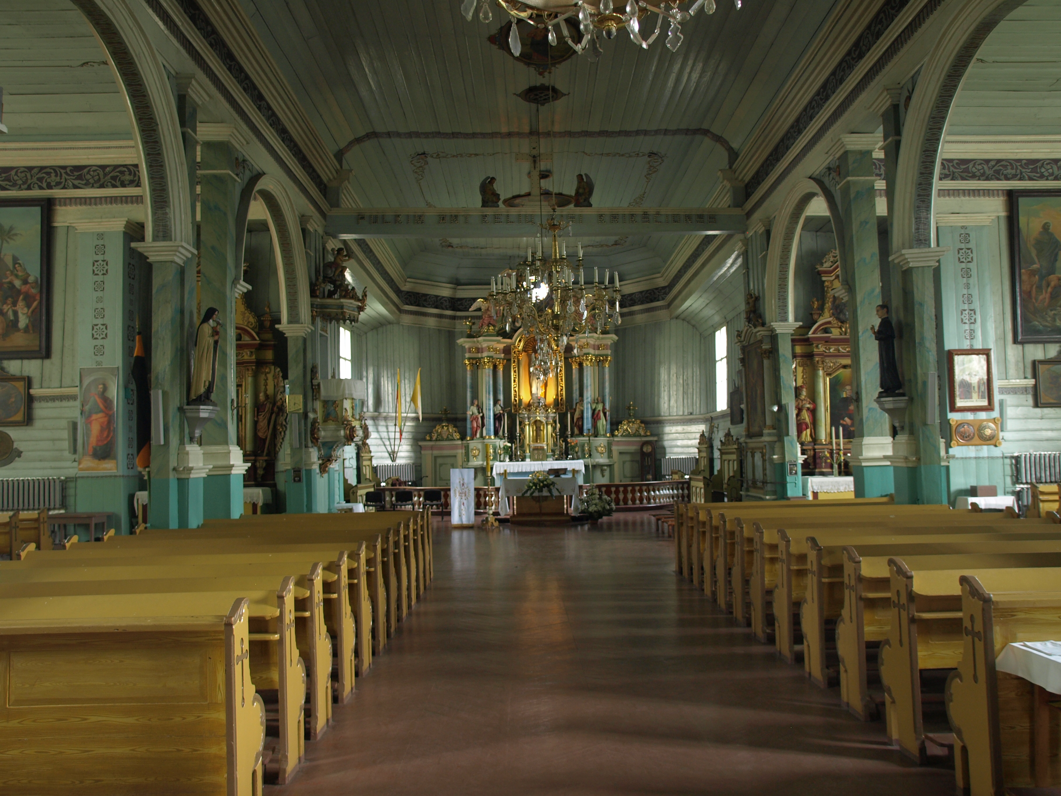 Prienai church, Prienai, Lithuania